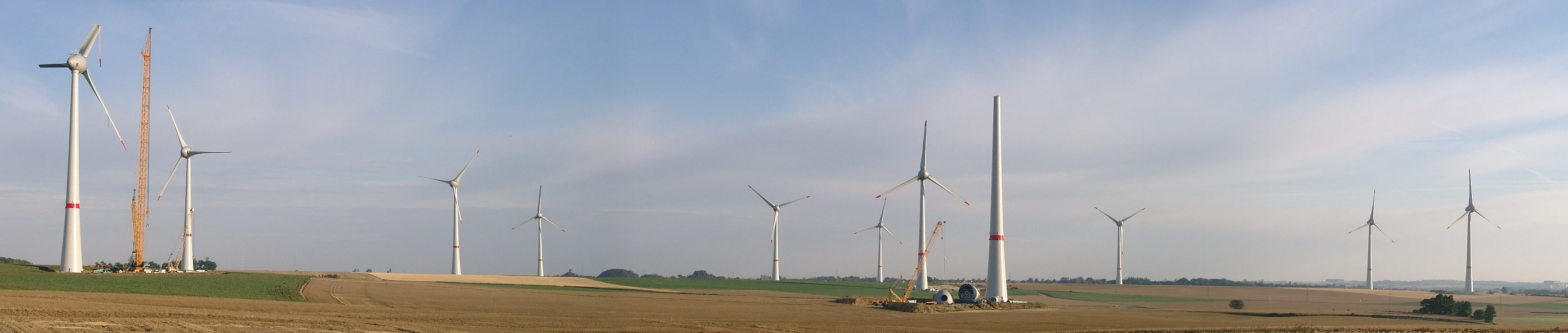 Estinnes wind farm on 20th July 2010, a month before completion.